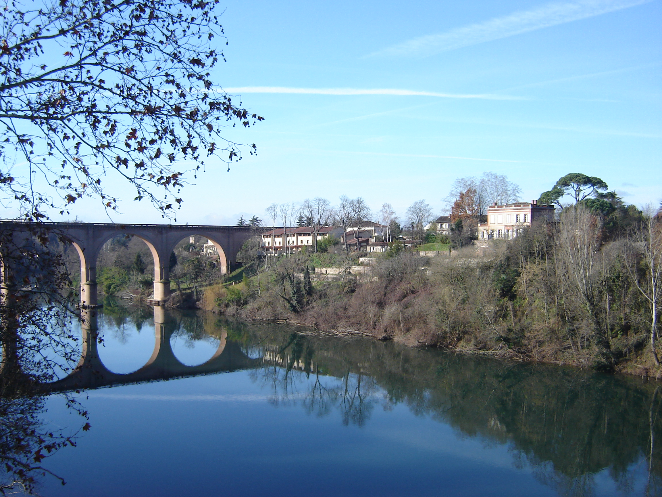 Albi Town France Source : myself Permission: Free to use (no copyright date: january 07